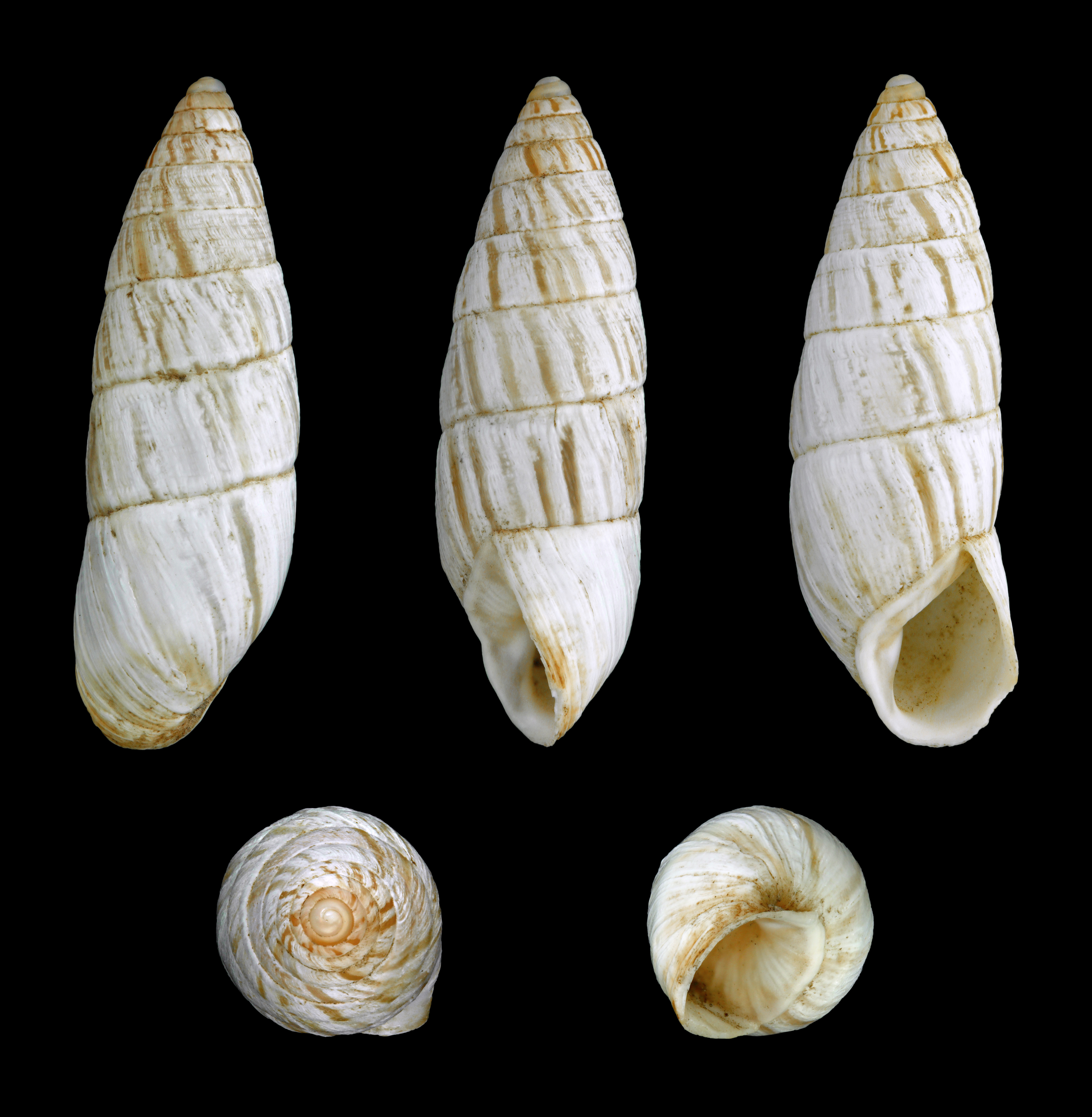 Striped form; Length 2.4 cm; Originating from Malibu Beach, Odessa, Ukraine; Shell of own collection, therefore not geocoded. Dorsal, lateral (right side), ventral, back, and front view.